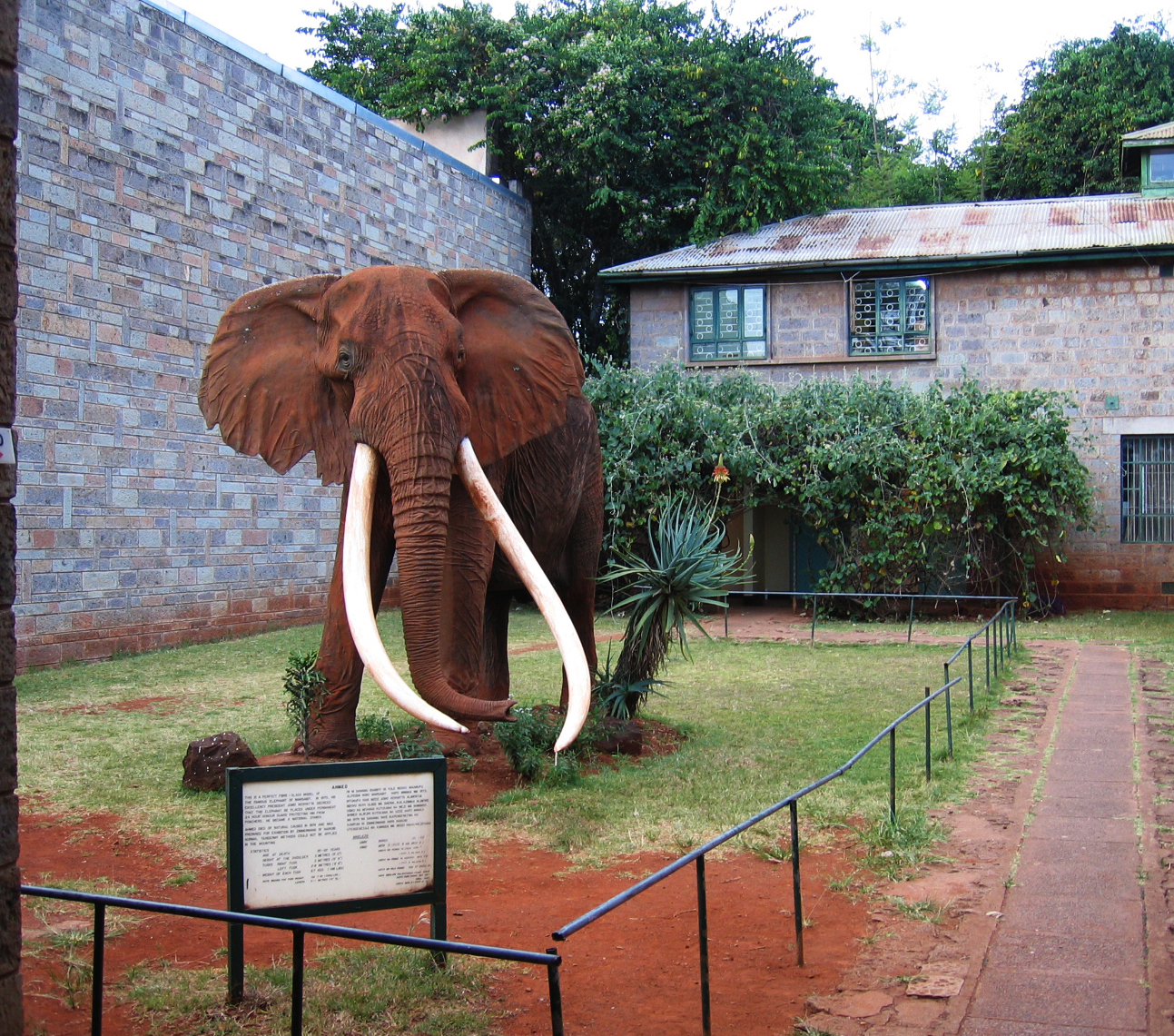 Nairobi Museum: elephant Ahmed ("the King of Marsabit") by the entrance.